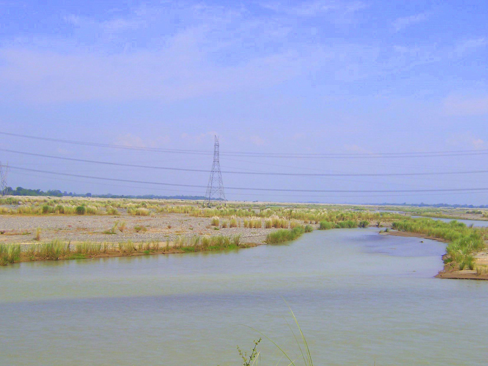 Agno River and wetlands, in Pangasinan province, on the west central area of the island of Luzon, the Philippines.